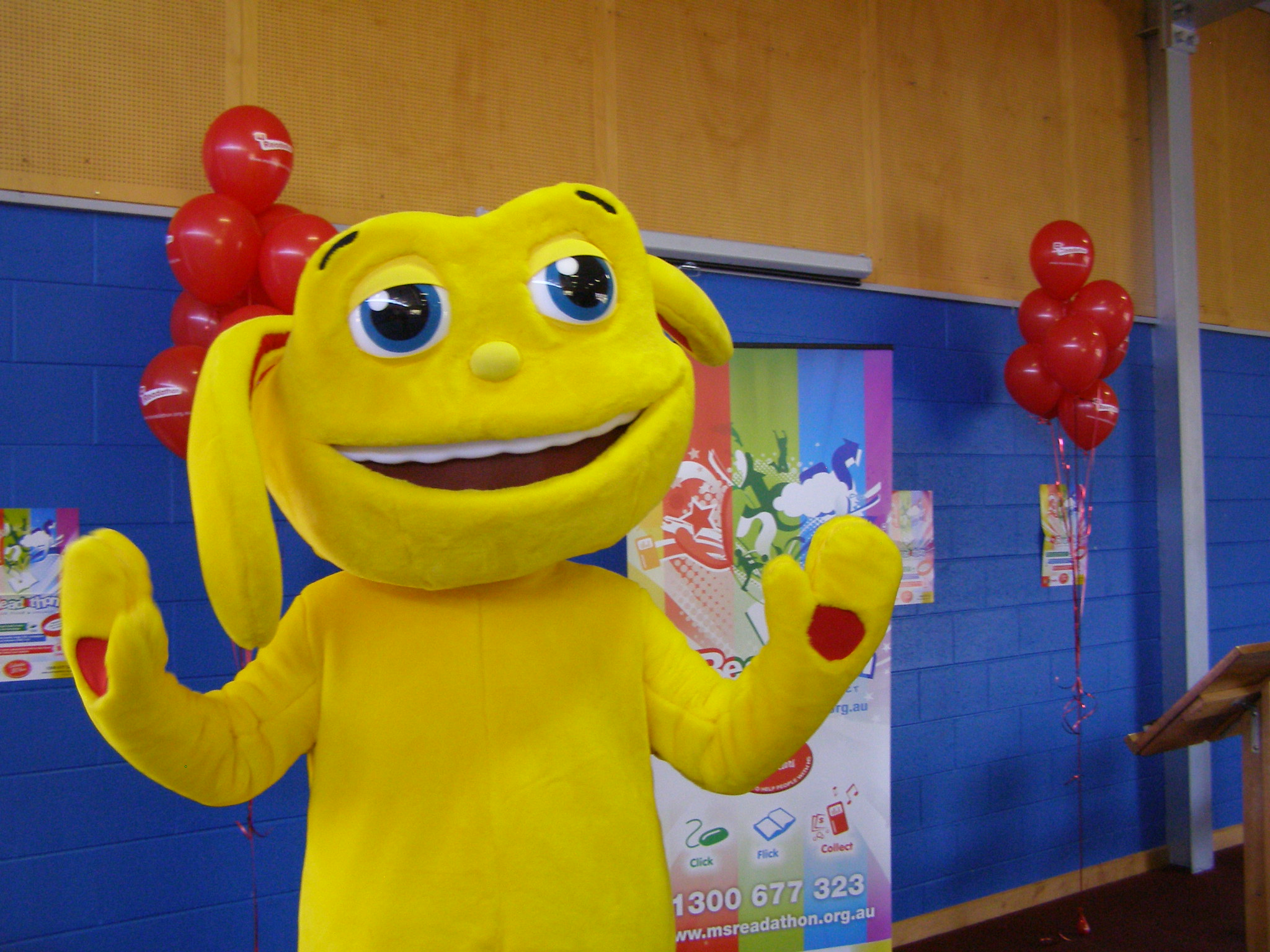 The MS Readathon mascot, Bosko, at the Tasmanian MS Readathon launch on May 5th 2009 at Howrah Primary School, Tasmania, Australia.